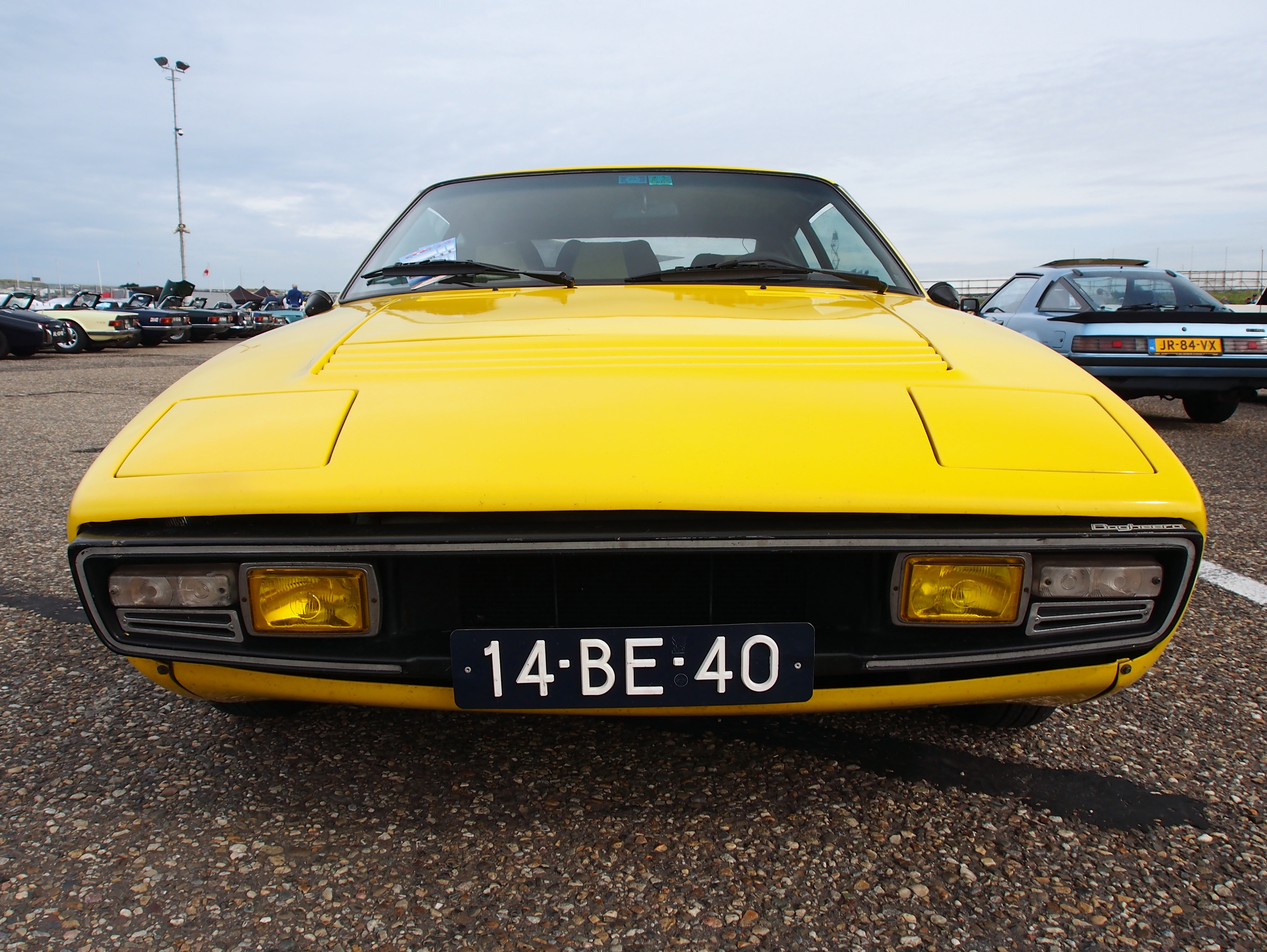 Photographed at the Nationaal Oldtimer Festival Zandvoort 2014, The Netherlands.